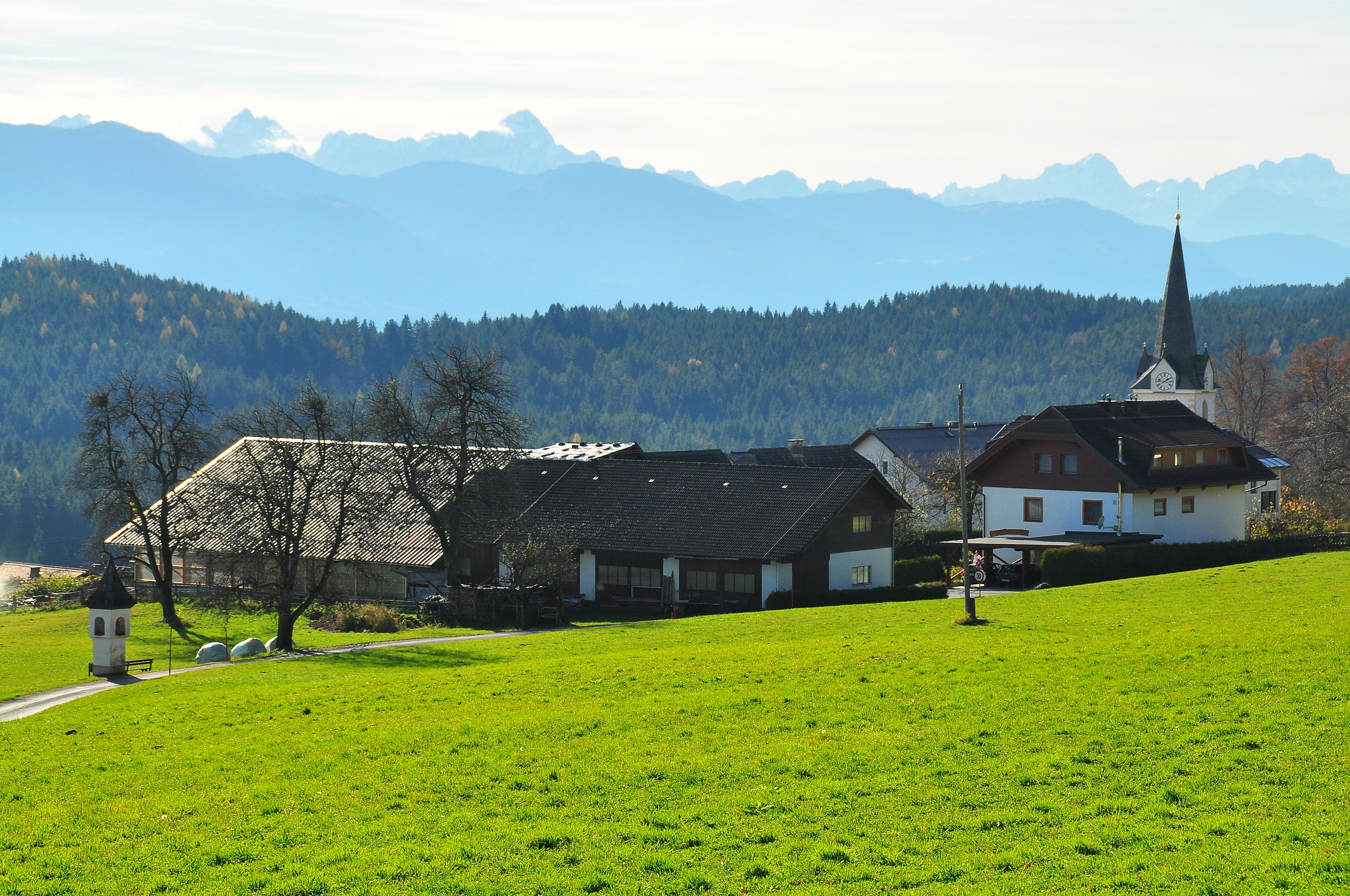 View from the north-east at the village Koestenberg in the community Velden on the Lake Woerth, district Villach-Land, Carinthia, Austria